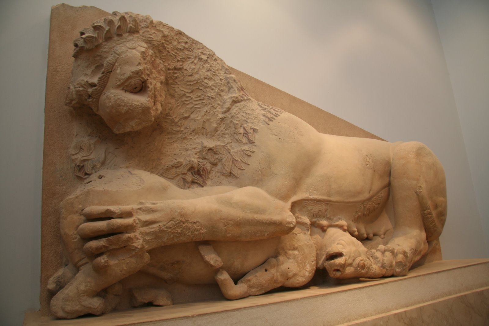 Metope from the Hekatompedon temple depicting a lion killing a deer